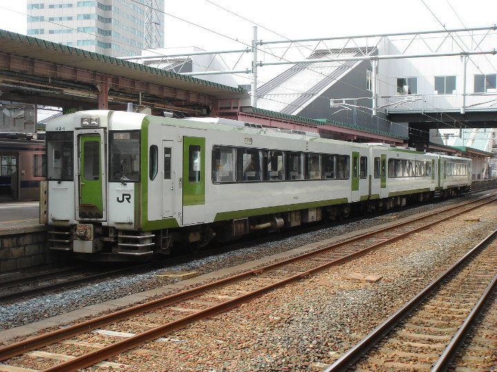 JR East KiHa 110 series DMU including KiHa 112-1 at Morioka Station on a Hamayuri rapid service